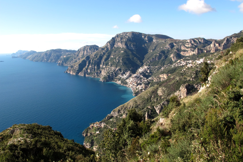 Path of the Gods, Italy